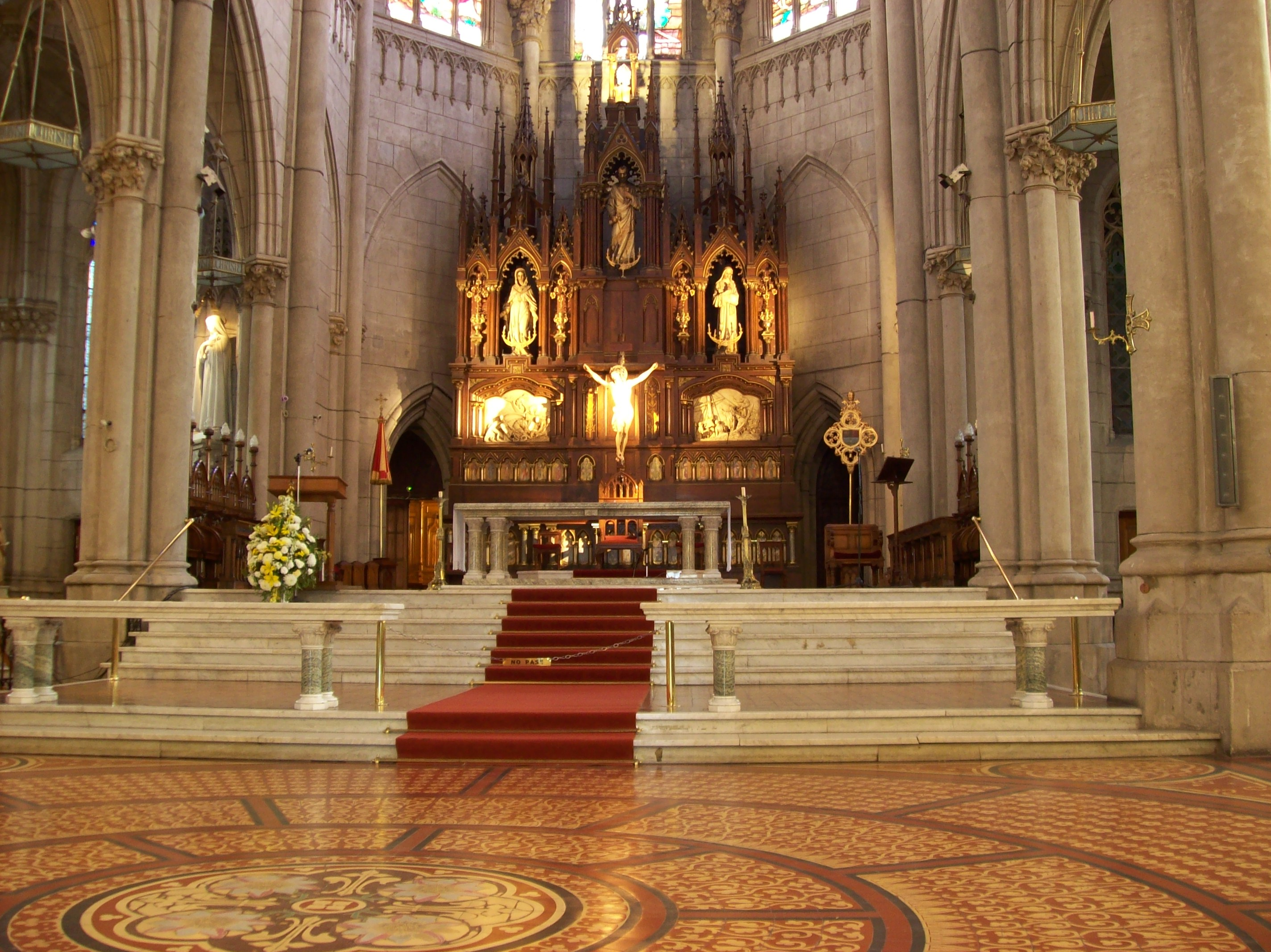 Interior of the Cathedral of Mar del Plata, Buenos Aires Province, Argentina.